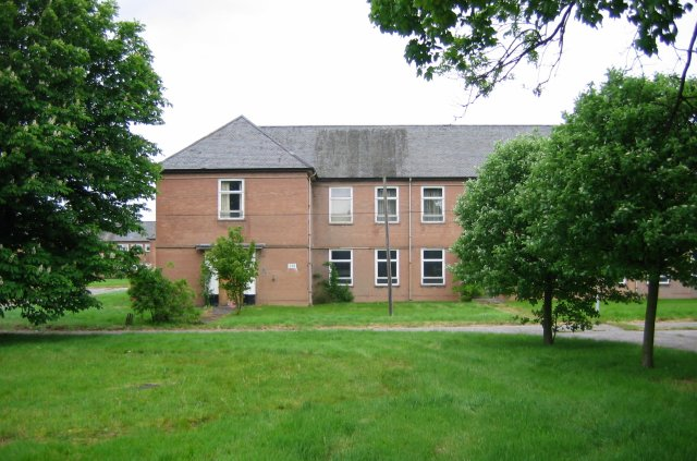 RAF Turnhouse. Recently closed RAF base by Edinburgh Airport. To be redeveloped as industrial units. Taken through the fence right up against the grid line.